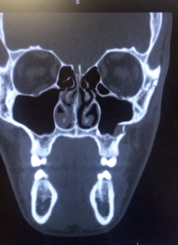 xray of skull